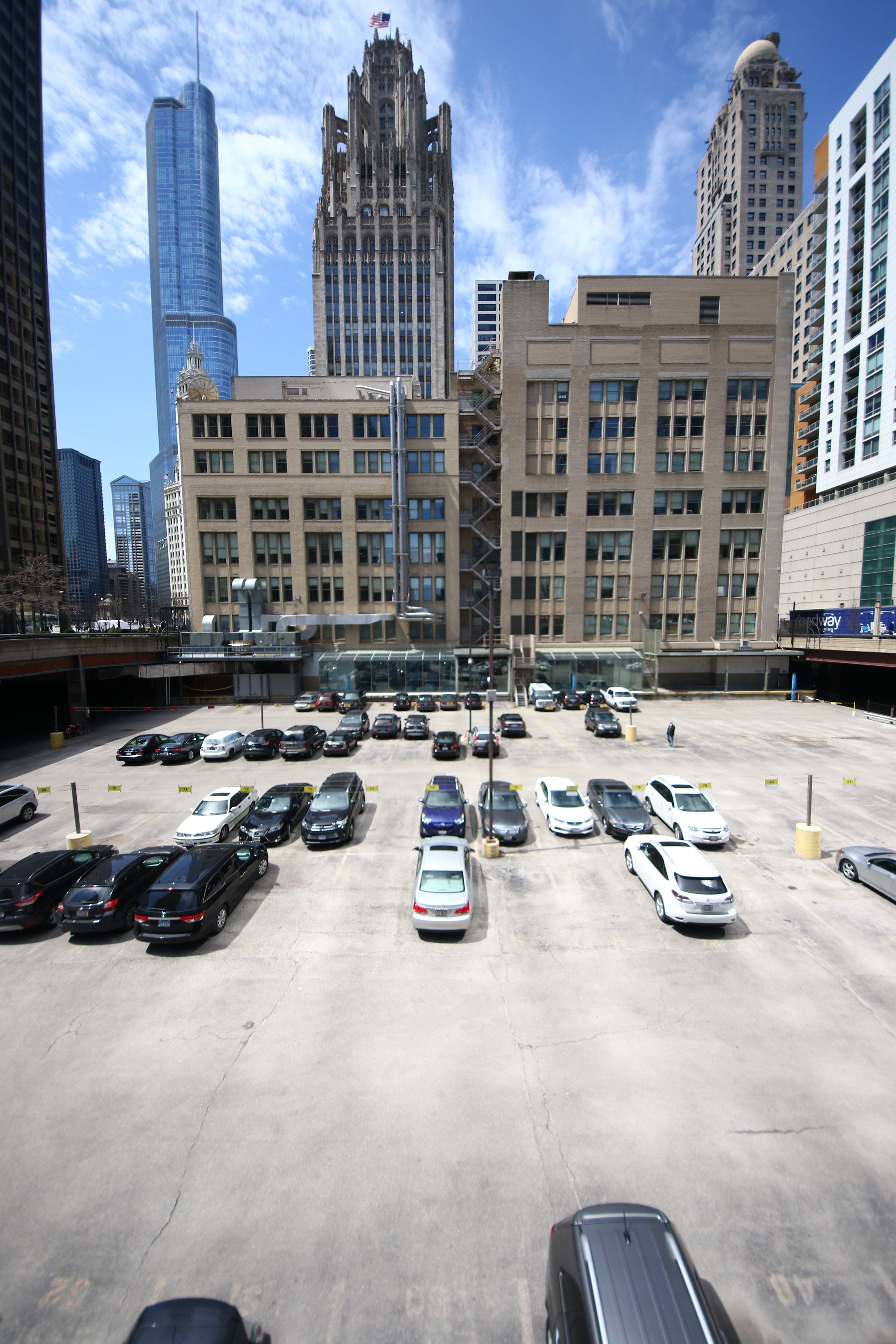 Tribune Tower property from eastern edge (upper level). Background (left to right) Trump International Hotel and Tower, Tribune Tower, and Wrigley Building